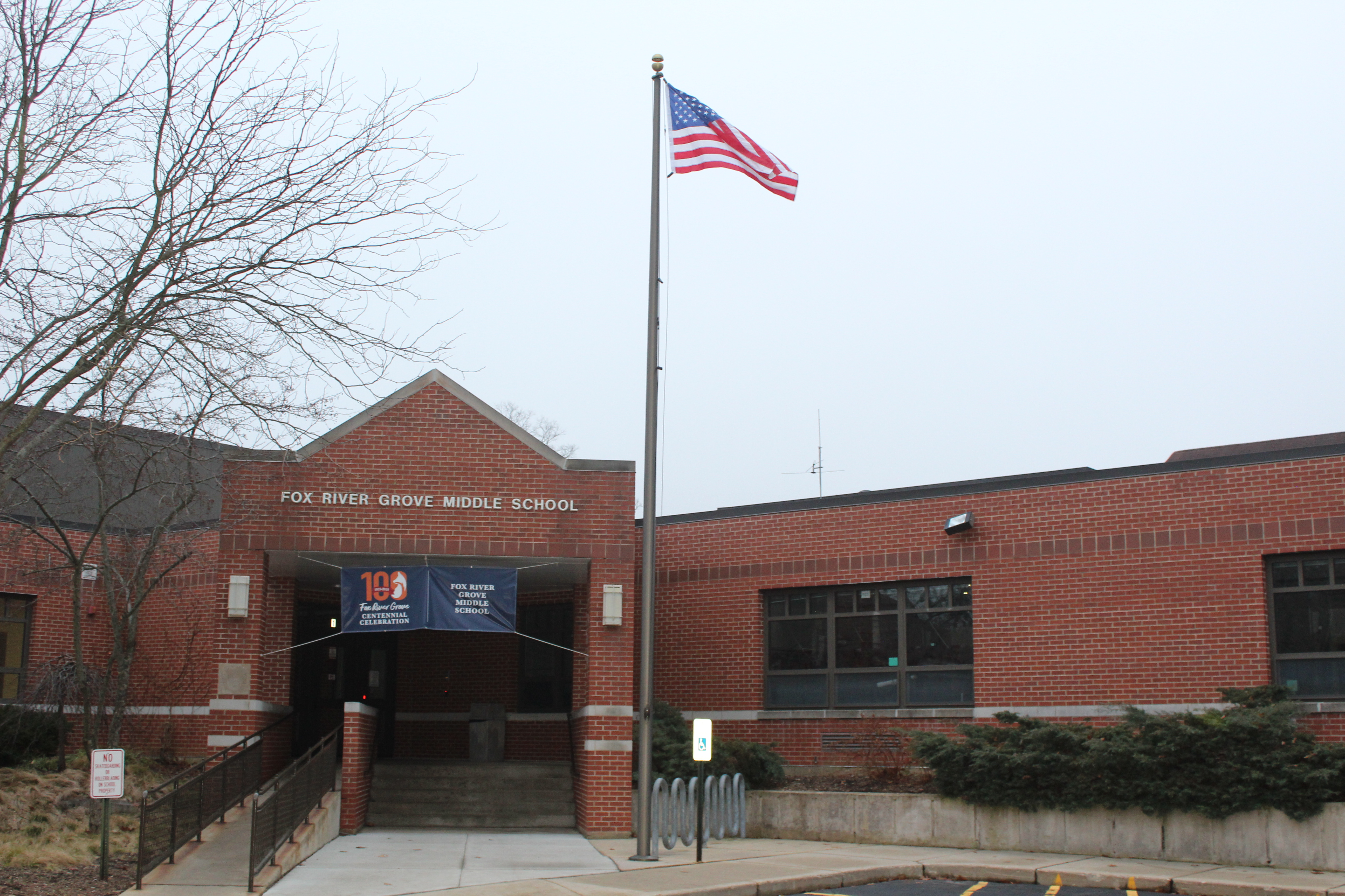 Fox River Grove Middle School in Fox River Grove, Illinois. Taken December 2019.